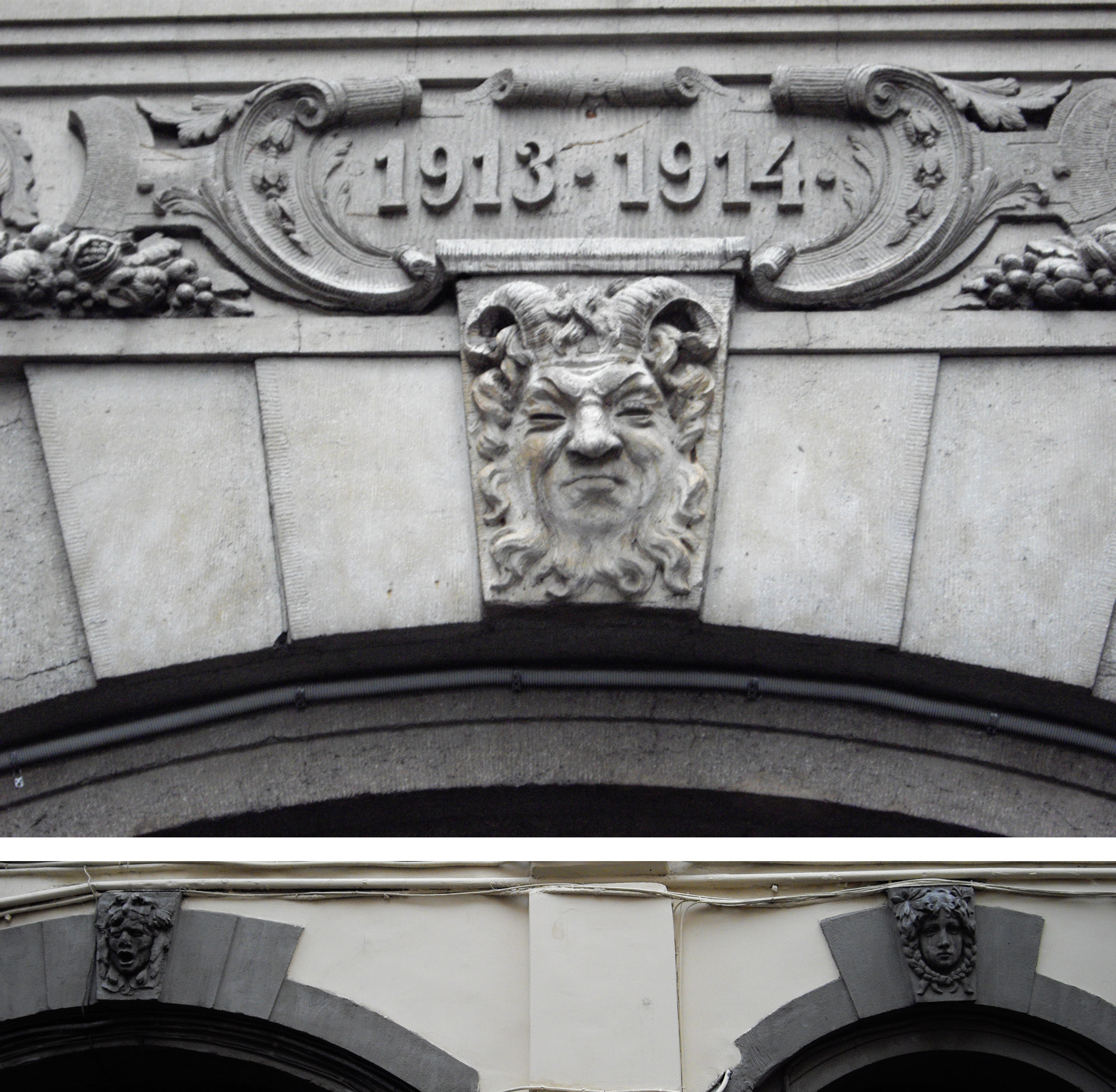 Mascarons on the "Benois House" (26-28, Kamennoostrovsky av. and 29, Kronverkskaya st., Saint-Petersburg, Russia; architects Leon Benois, Albert Benois, and Jules Benois, 1911-1914).